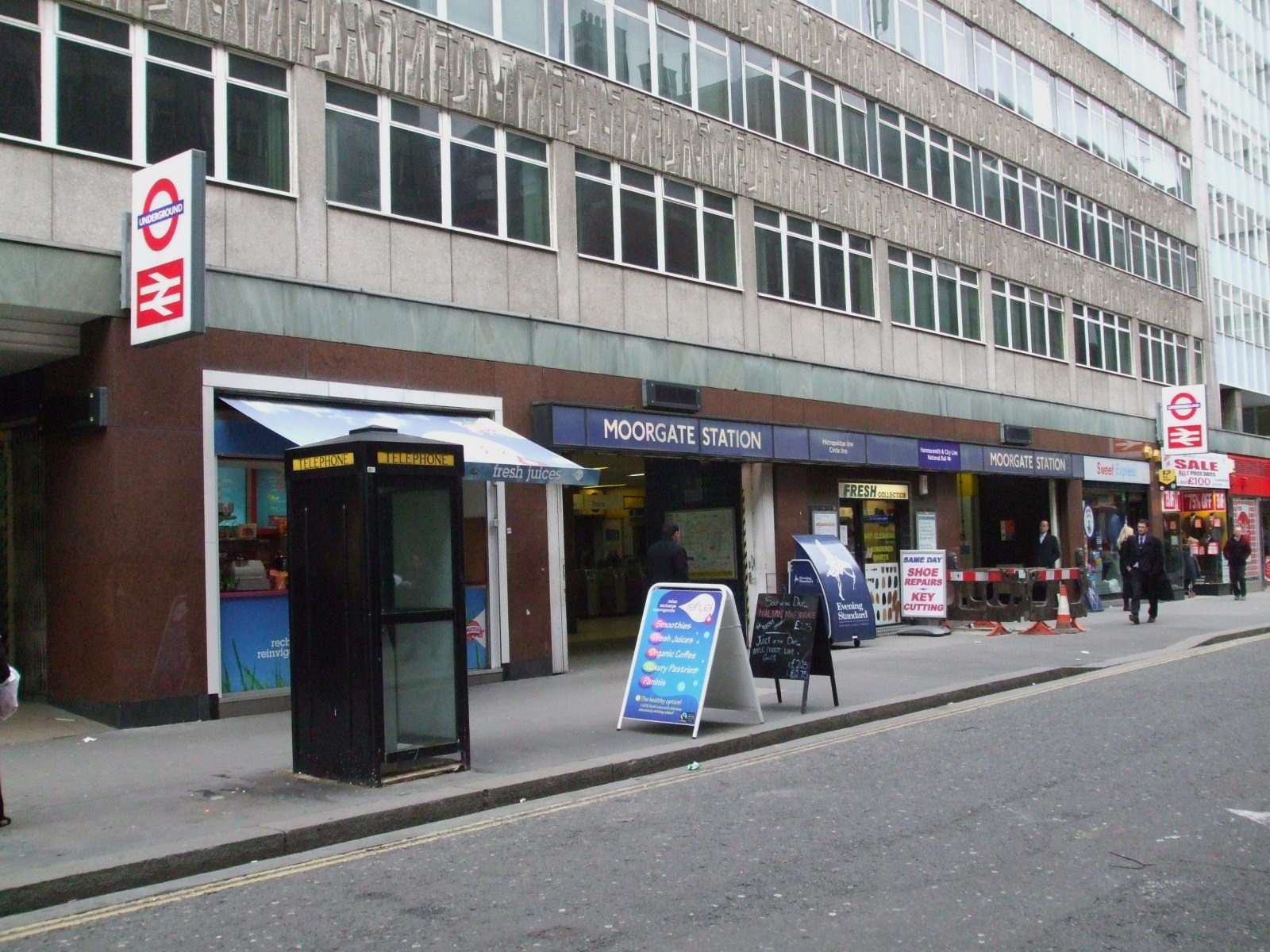 Moorgate station entrance on the western side of Moorfields. This entrance is closed after the evening peak